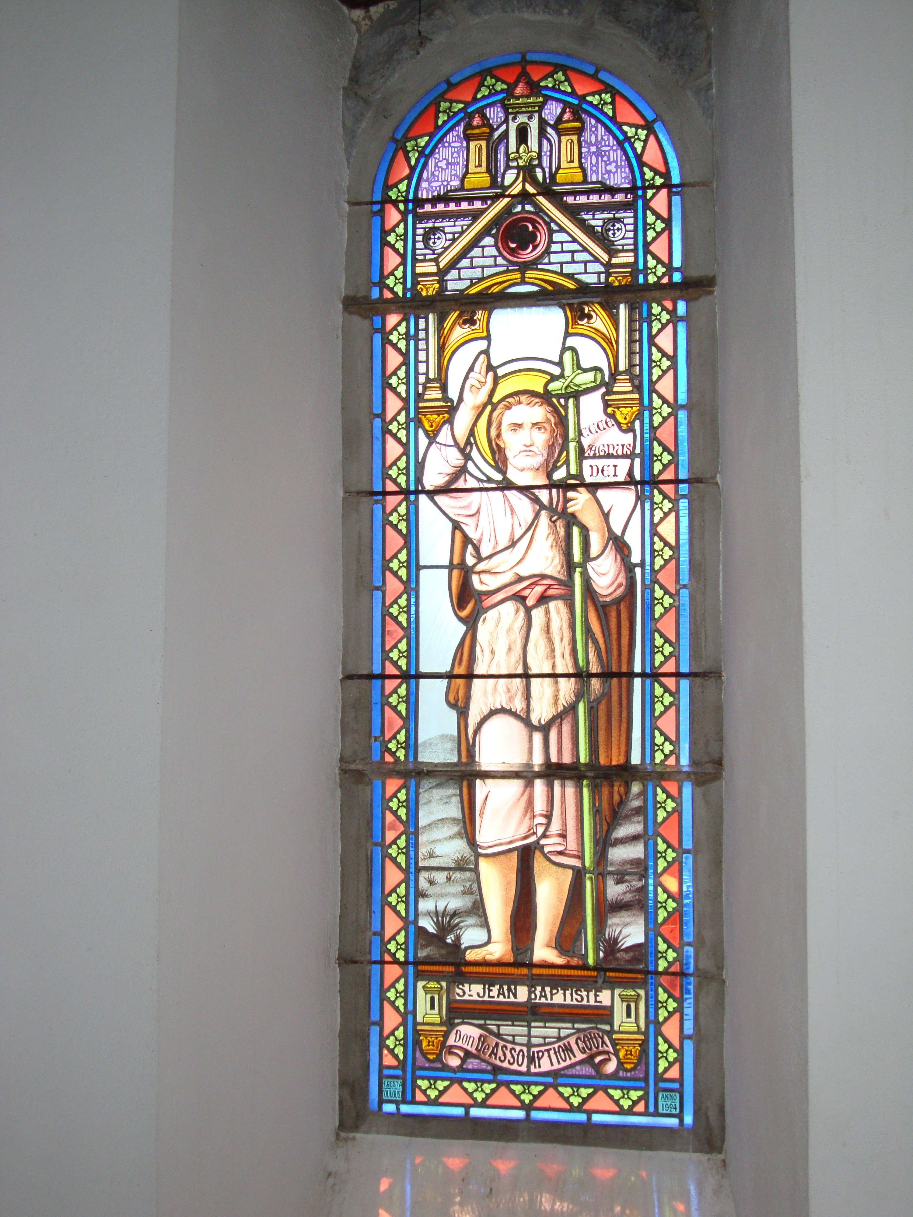 Licq (Licq-Athéry, Pyr-Atl, Fr) stained glass window Saint John the Baptist, signature: "H. GESTA TOULOUSE ANNO 1924"